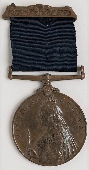 Queen's Visit to Ireland Medal, 1900, obverse. British commemorative medal.